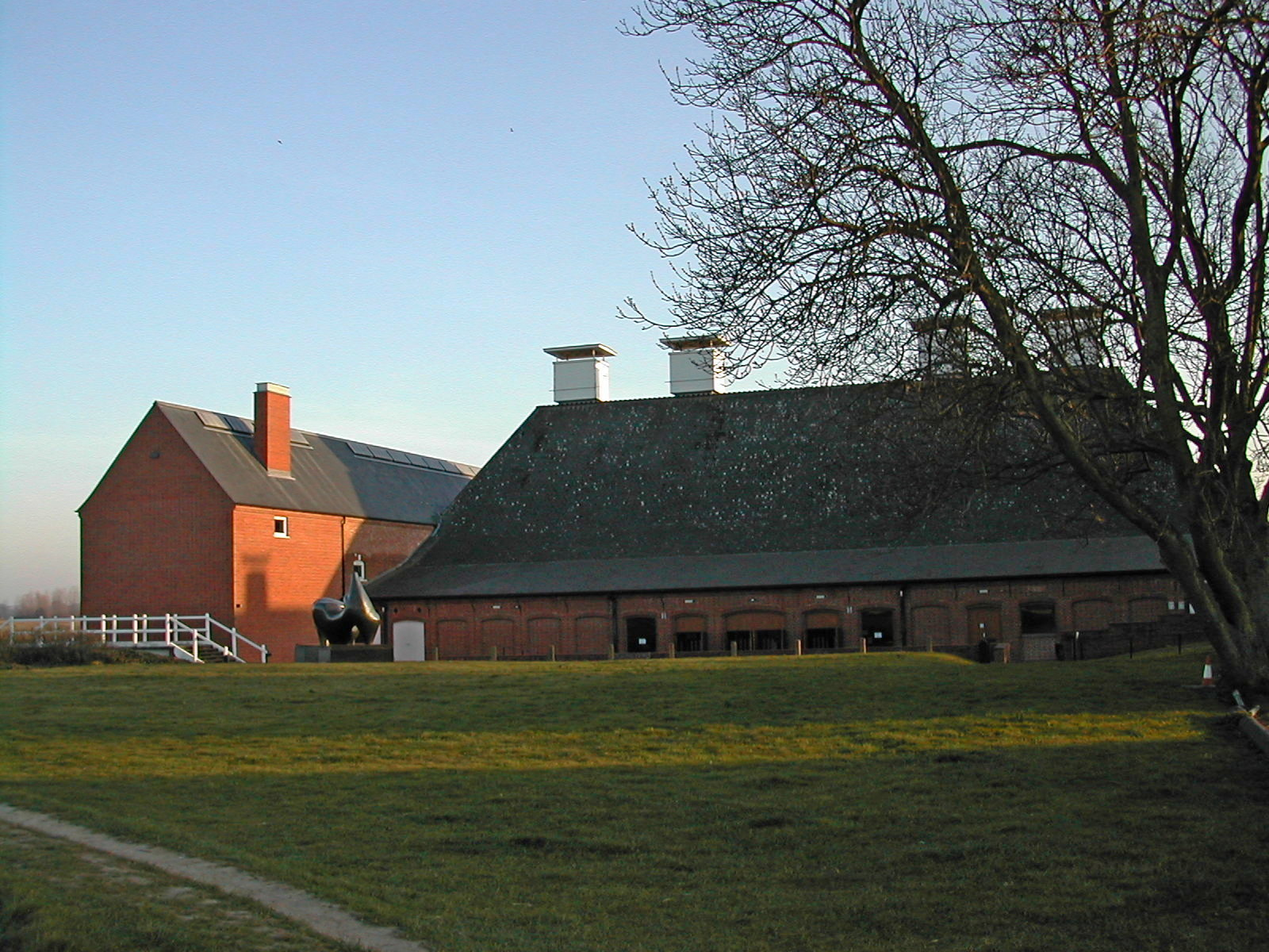 My own digital image of Snape maltings concert hall. I release all rights.